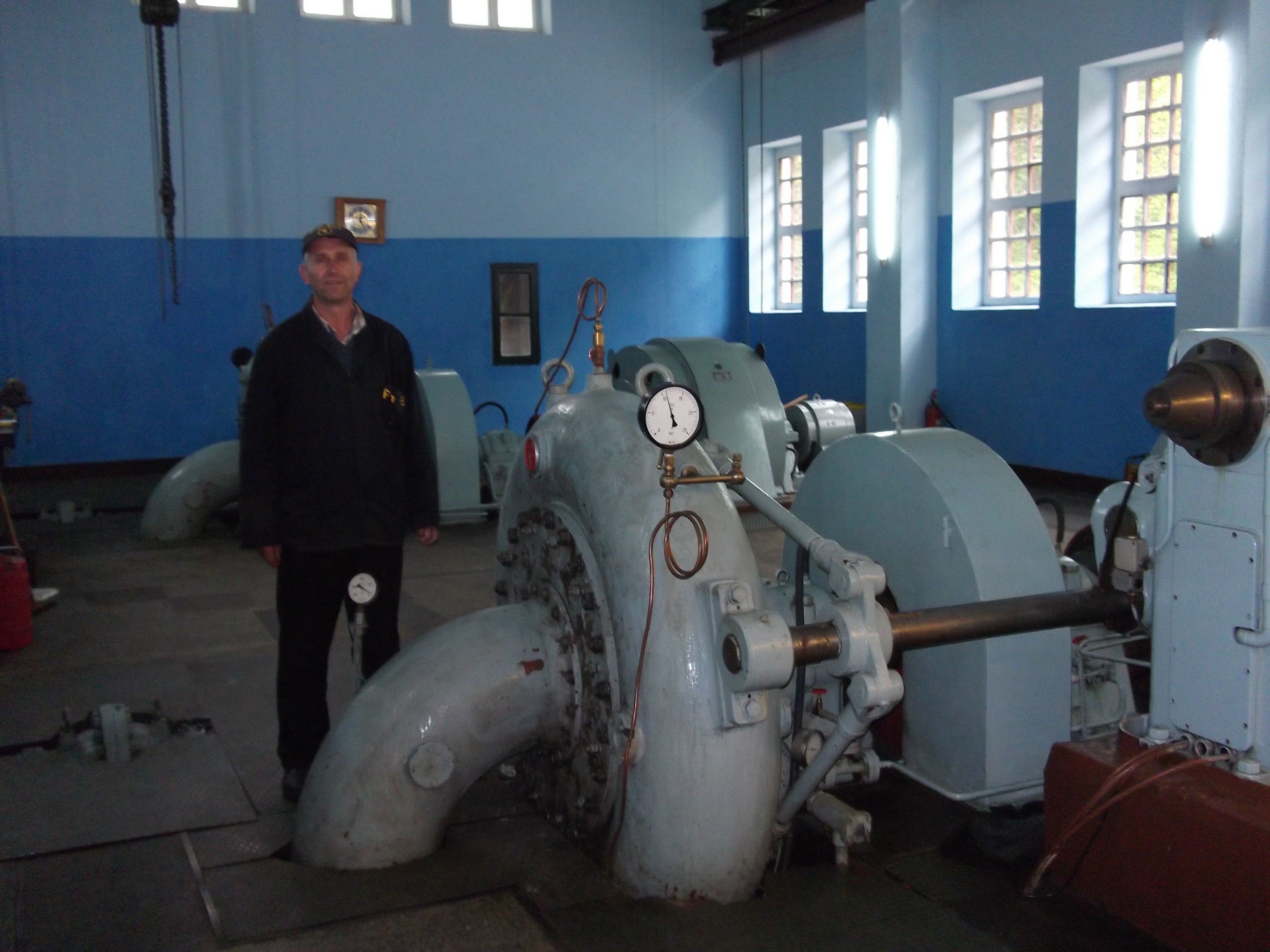 Hidrocentrali I Dikances – Dragash Kosove 1